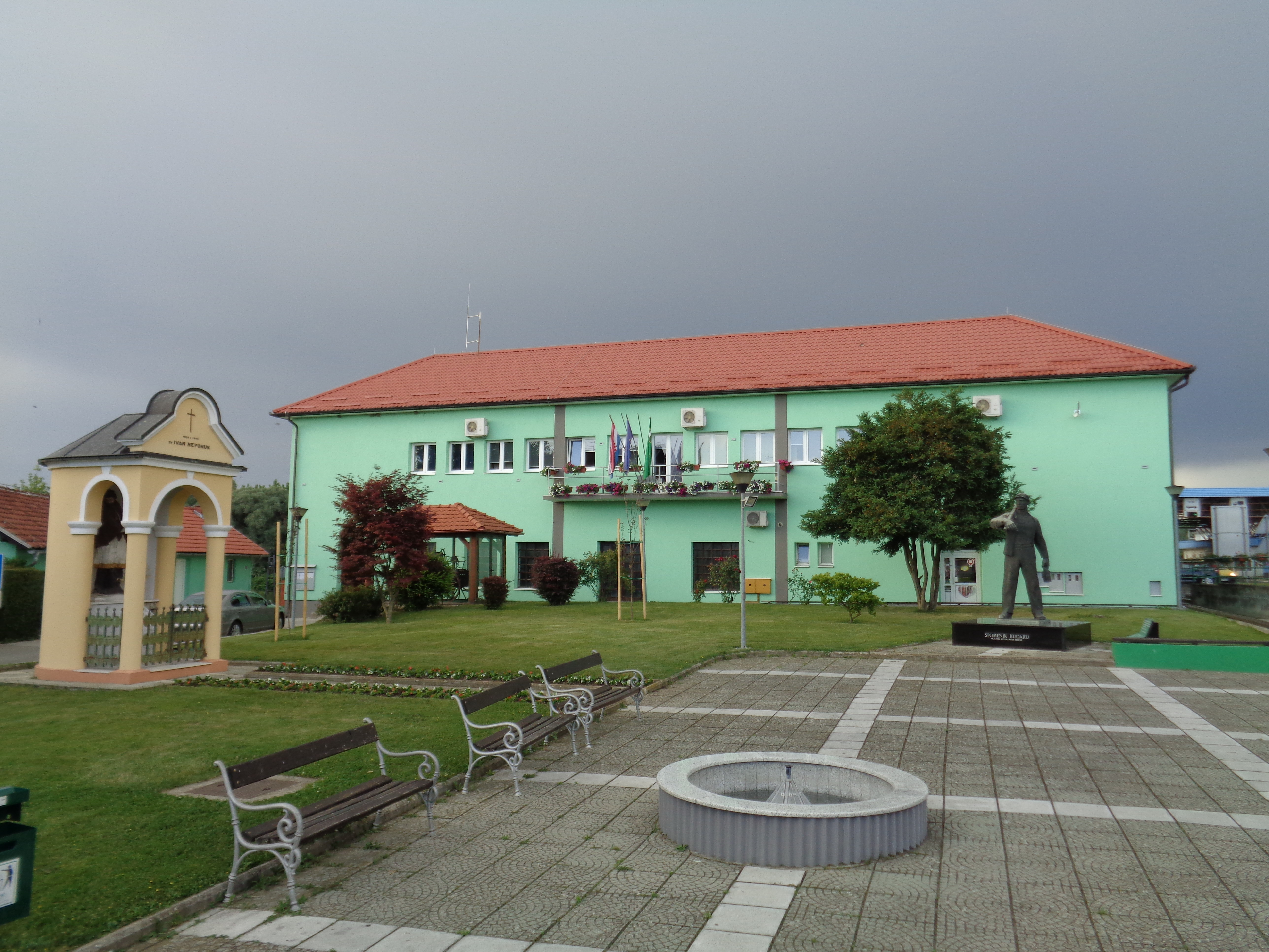 The Town of Mursko Središće, Medjimurje County, Croatia - Ban Josip Jelačić Square